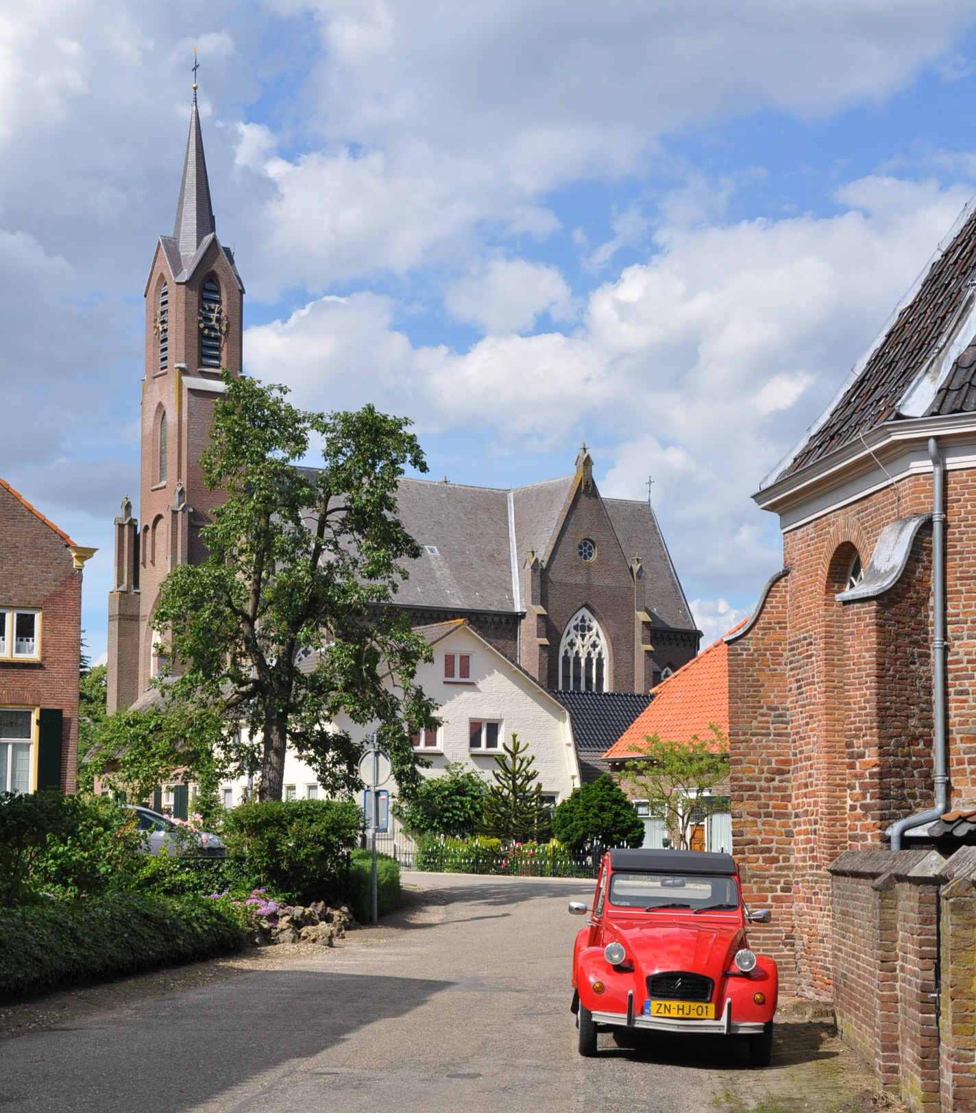 Alem, a village within the municipality Maasdriel (Gelderland province, Netherlands), with the Saint Hubertus church (built in 1873, Roman Catholic).